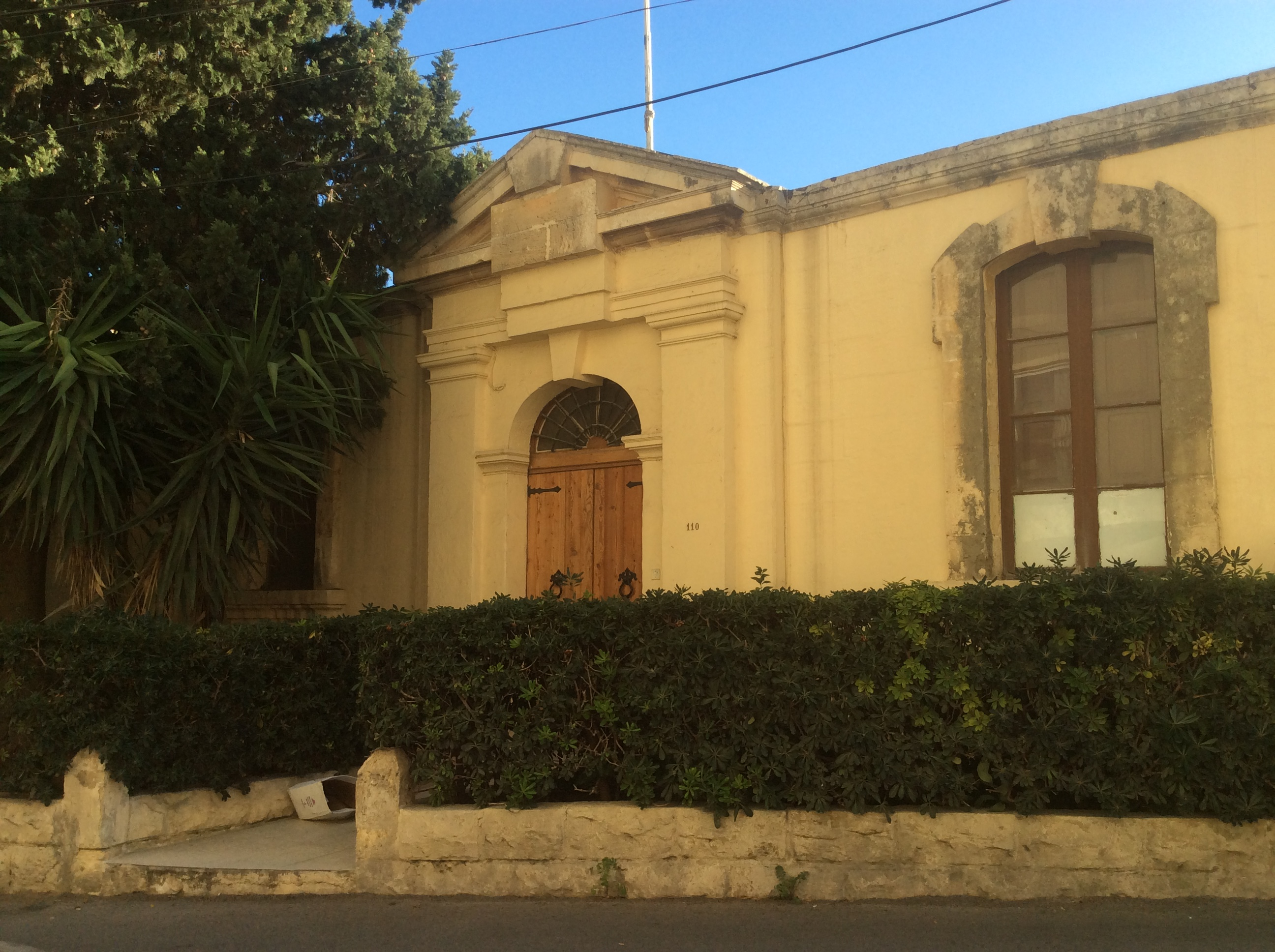 Villa Fort and places in Lija